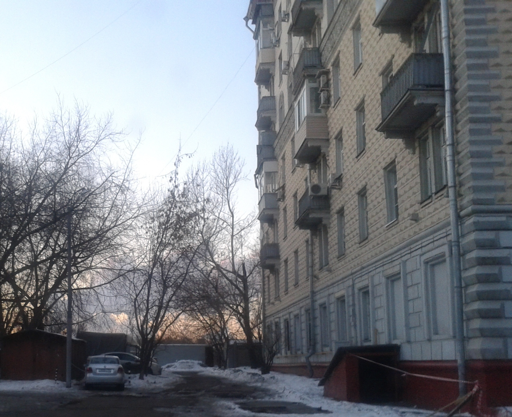 Building by architect Rosenfeld